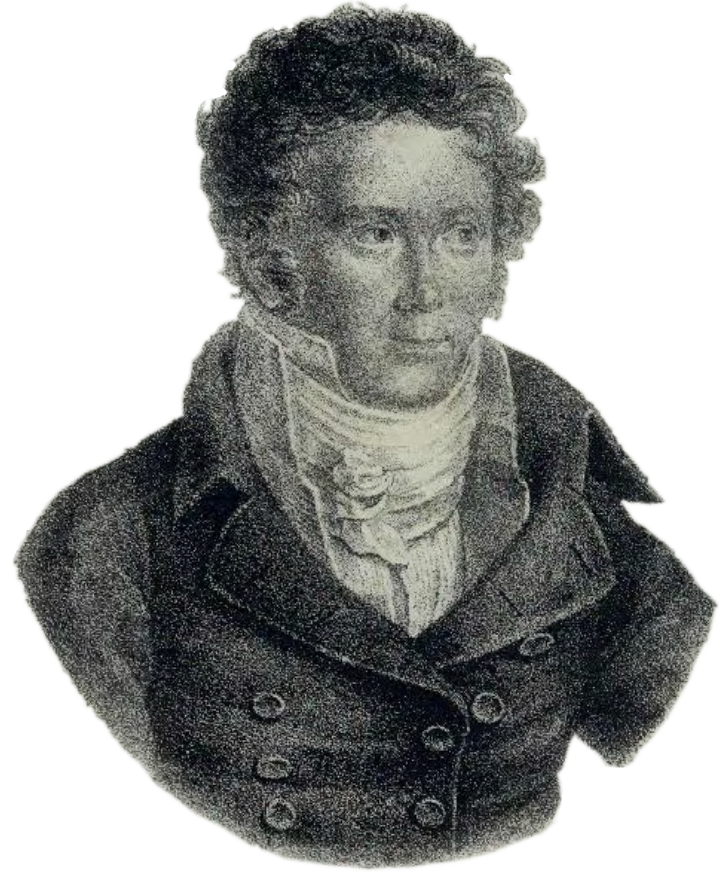 Portrait of Étienne de Jouy. Derivative of File:Moralen anvendt paa Politiken II.djvu